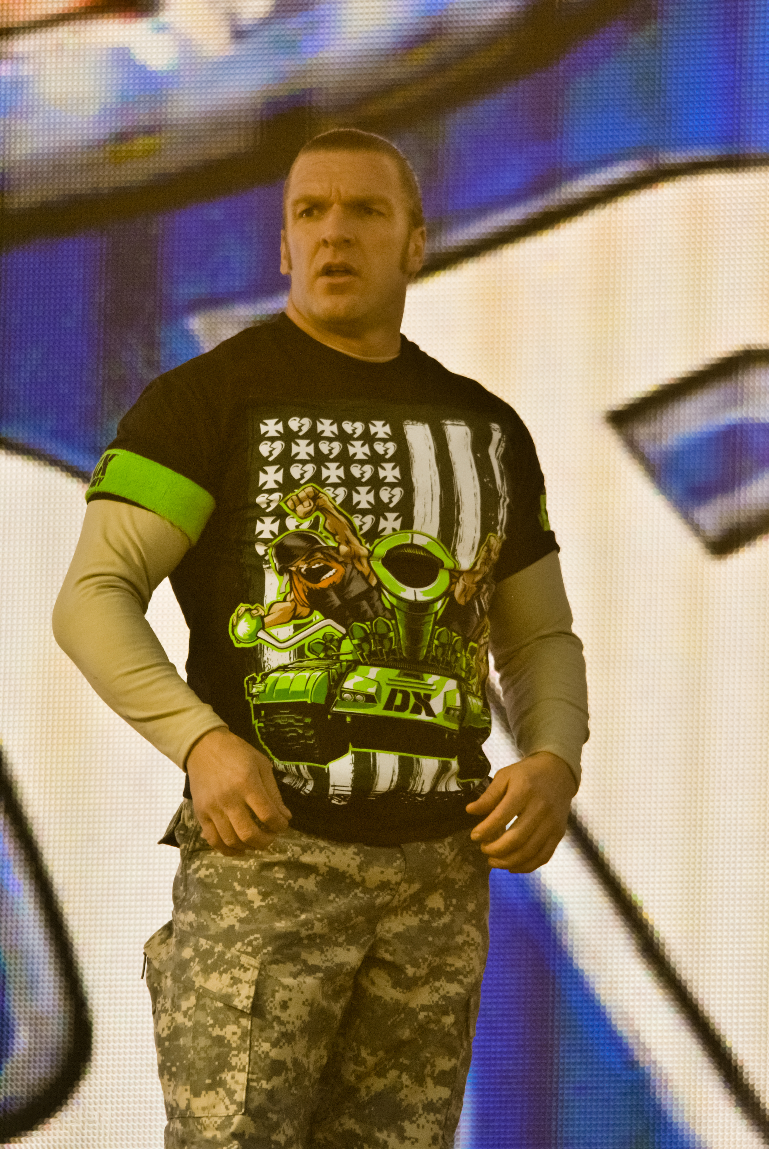 Triple H at WWE's Tribute to the Troops show in Fort Hood, Texas, on December 11, 2010.